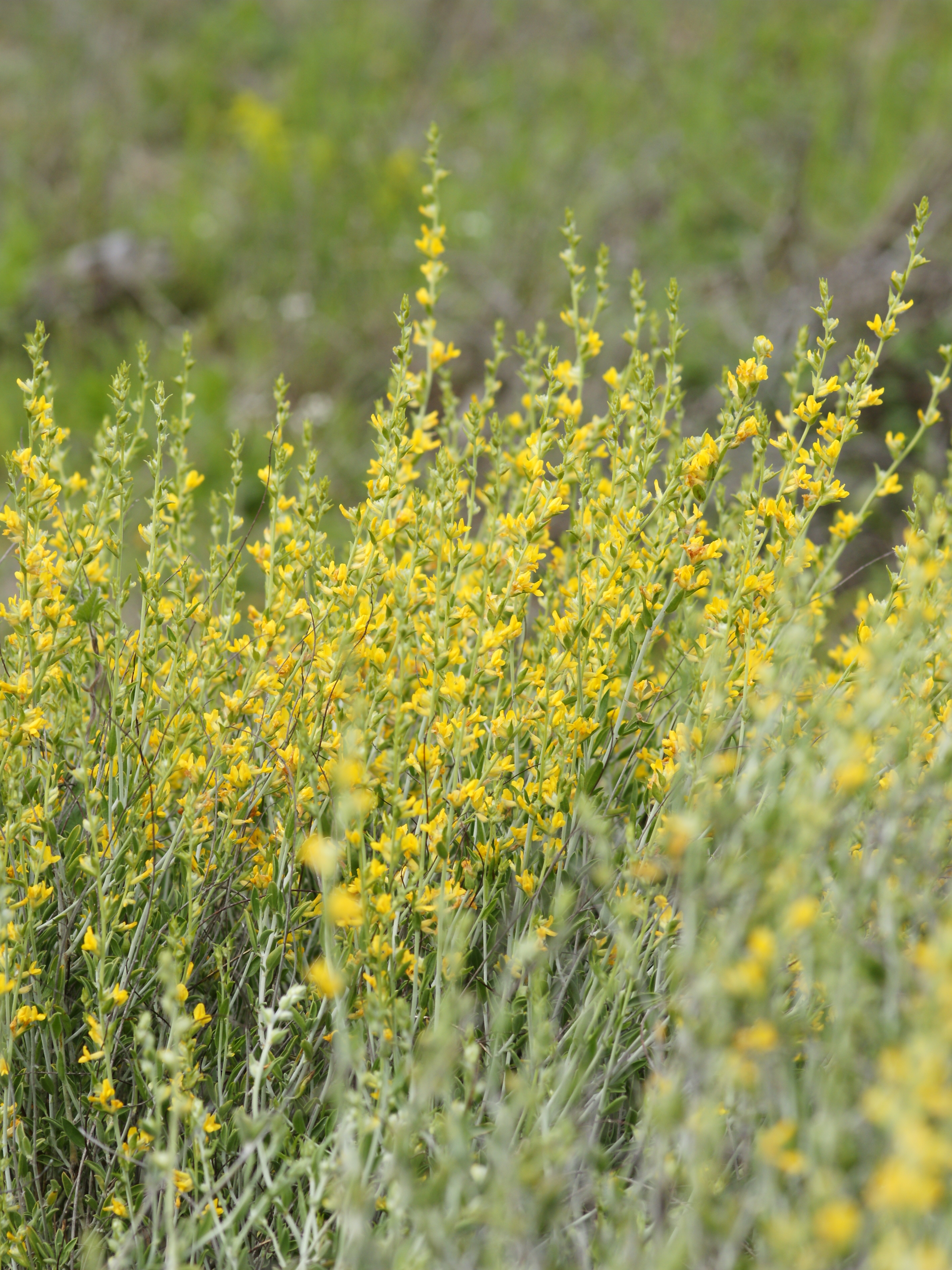 Albaida near Cala Ses Salinas, Mallorca.